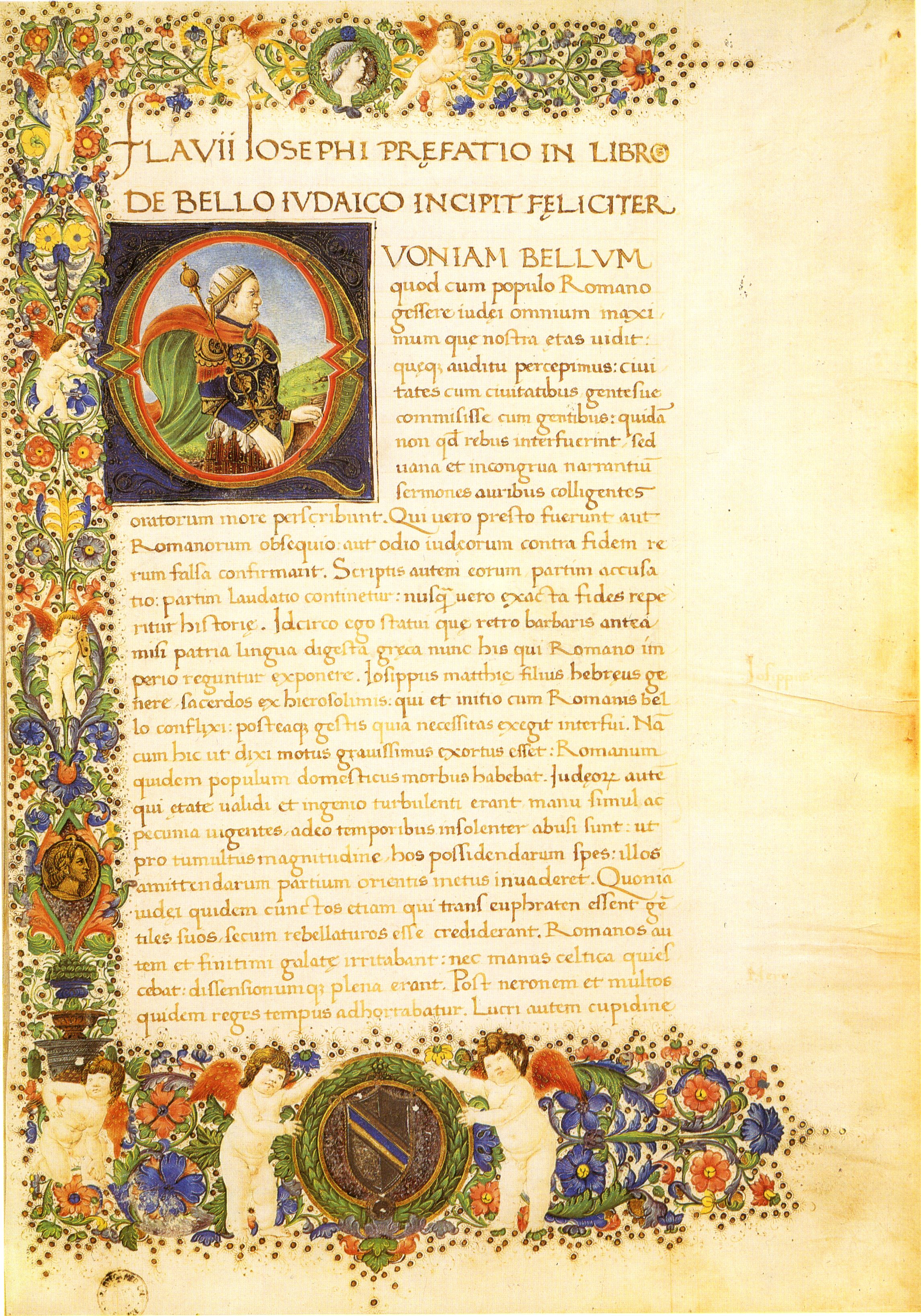 Josephus, The Jewish War in Latin translation in ms. Florence, Biblioteca Medicea Laurenziana, Plut. 66.7, fol. 1r.